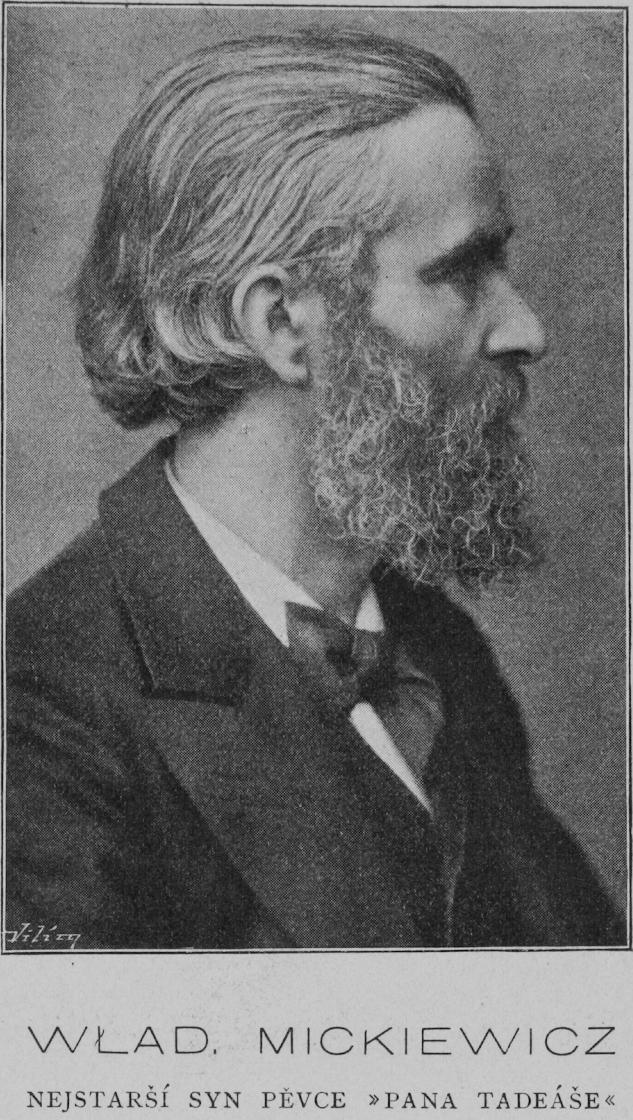 Portrait of Władysław Mickiewicz (1838 - 1926) - journalist, editor and organizer of Polish culture in exile in Paris. Son of Adam Mickiewicz.